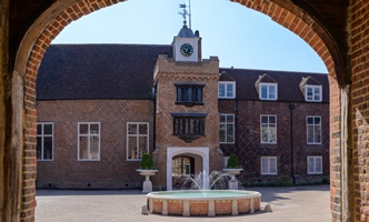 Tudor courtyard at Fulham Palace